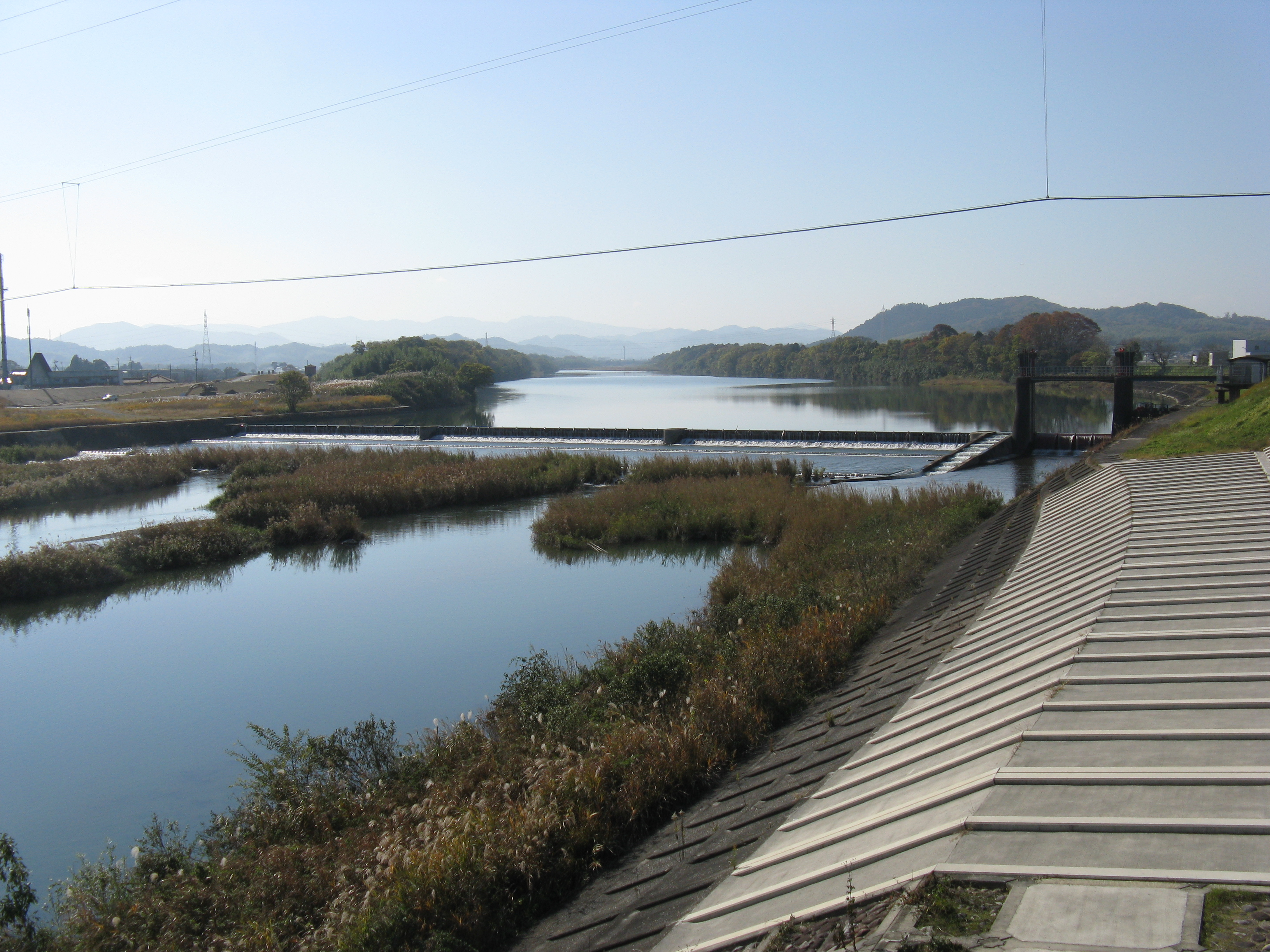 The Kushida River, as seen approaching the kushida area of Matsusaka.